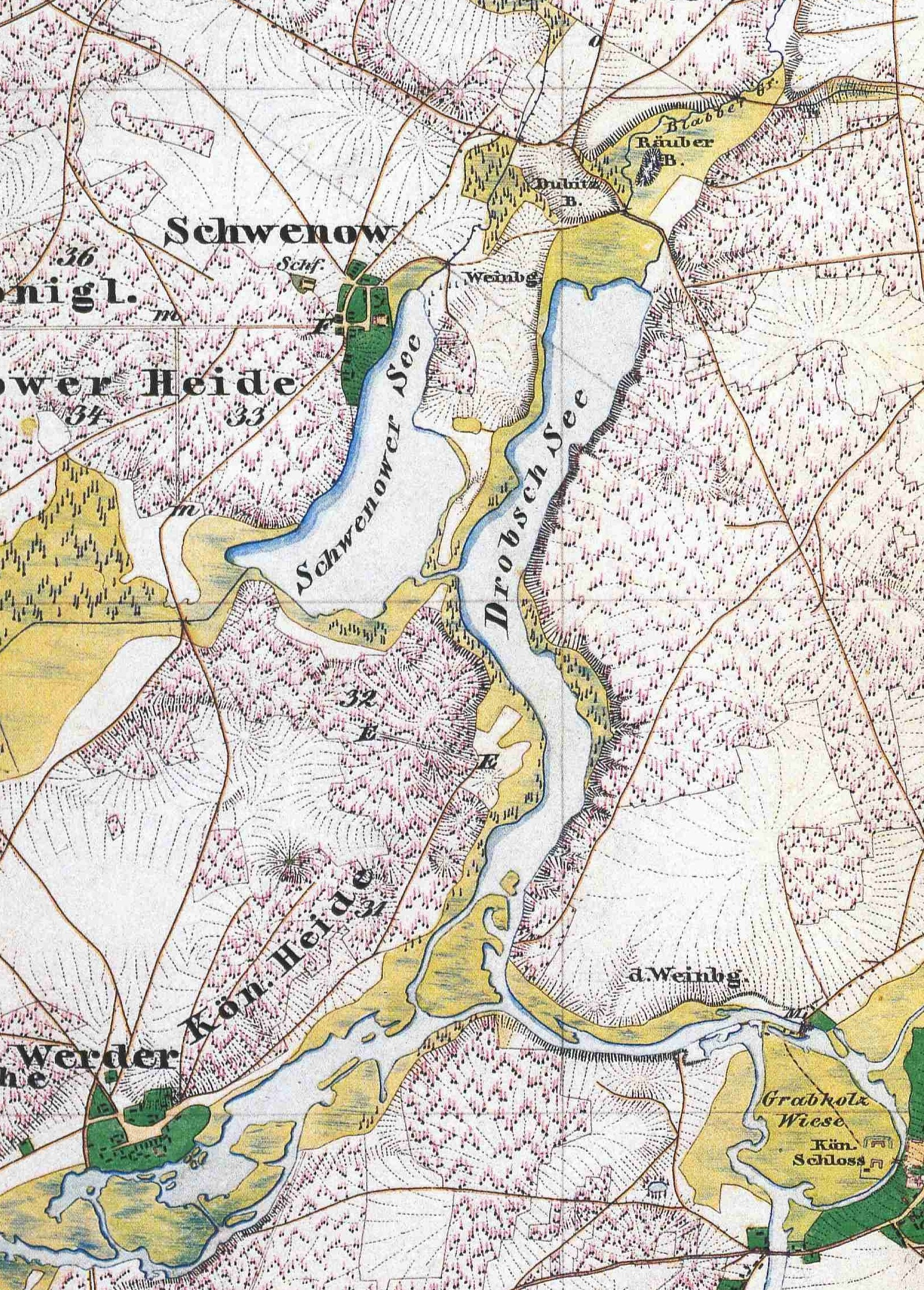 Drobschsee and Schwenowsee in 1846. The lakes are situated in the today District Oder-Spree, Brandenburg, Germany. Detail from the Urmesstischblatt (prototype planetable sheet at 1:25,000) Sheet 3850 Kossenblatt, drawn in 1846.